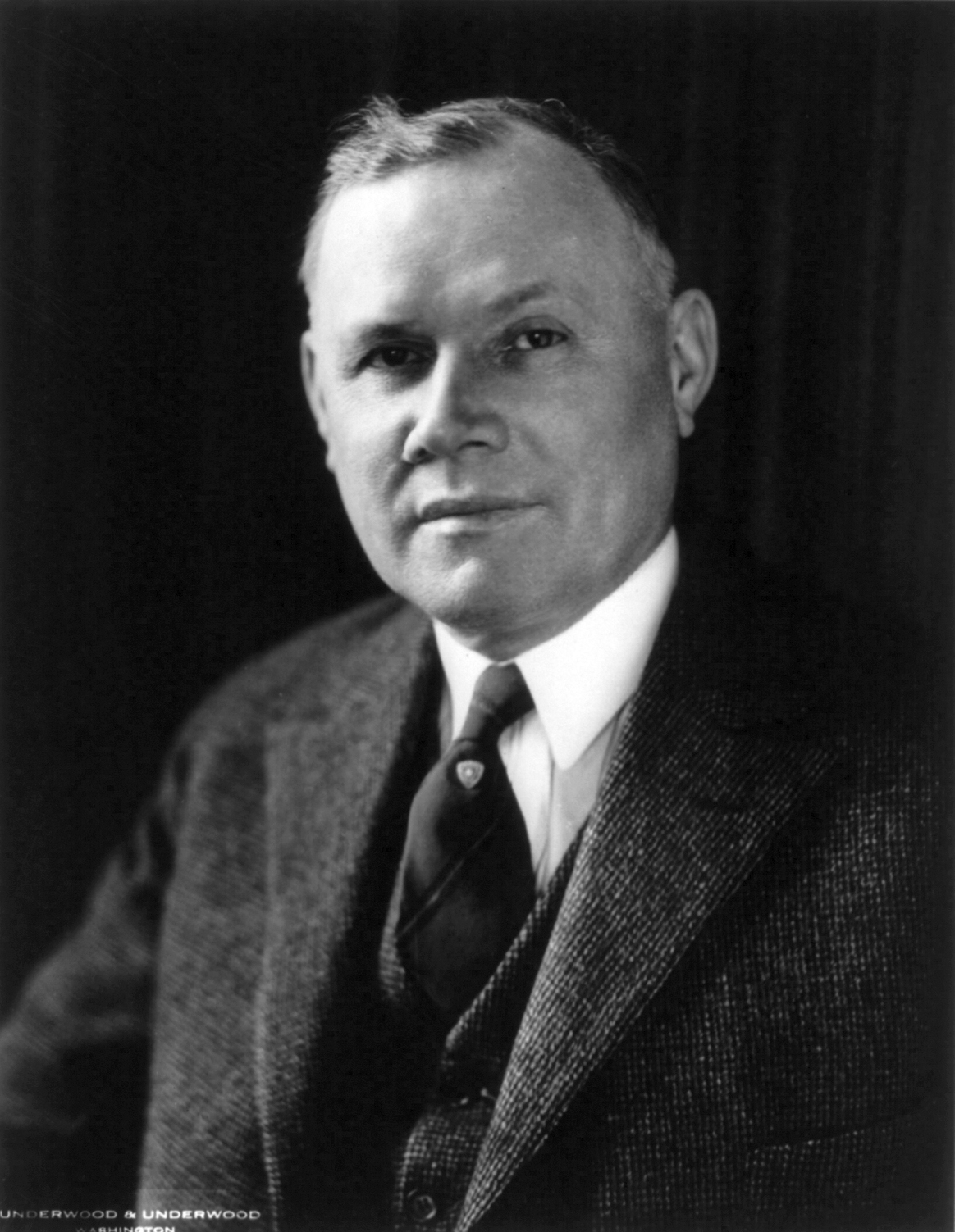 William Green, American labor leader